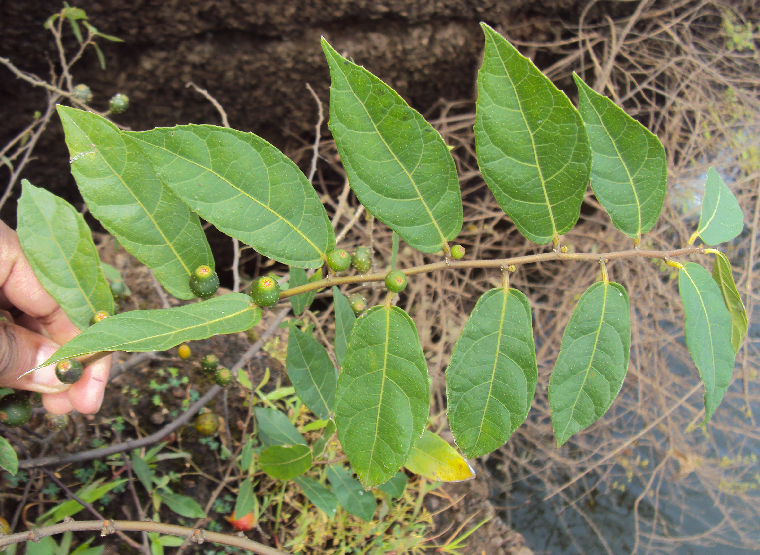 Ficus heterophylla